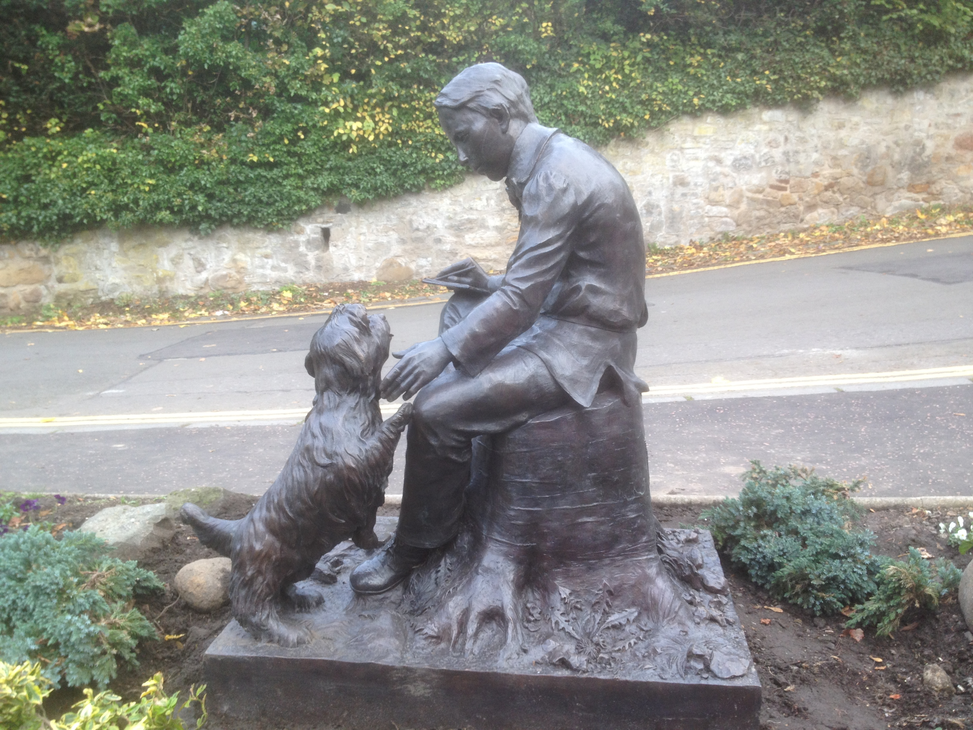 Statue of Robert Louis Stevenson as a child and his dog. Statue is located in Colinton, Scotland outside Colinton Parish Church